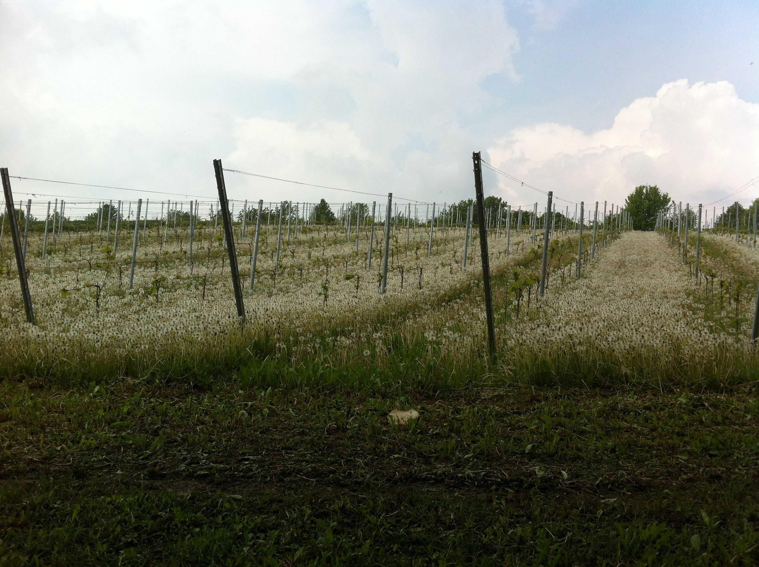 Wineyard close to Naumburg/Weinberge, Germany; Taraxacum officinale amongst wine plants